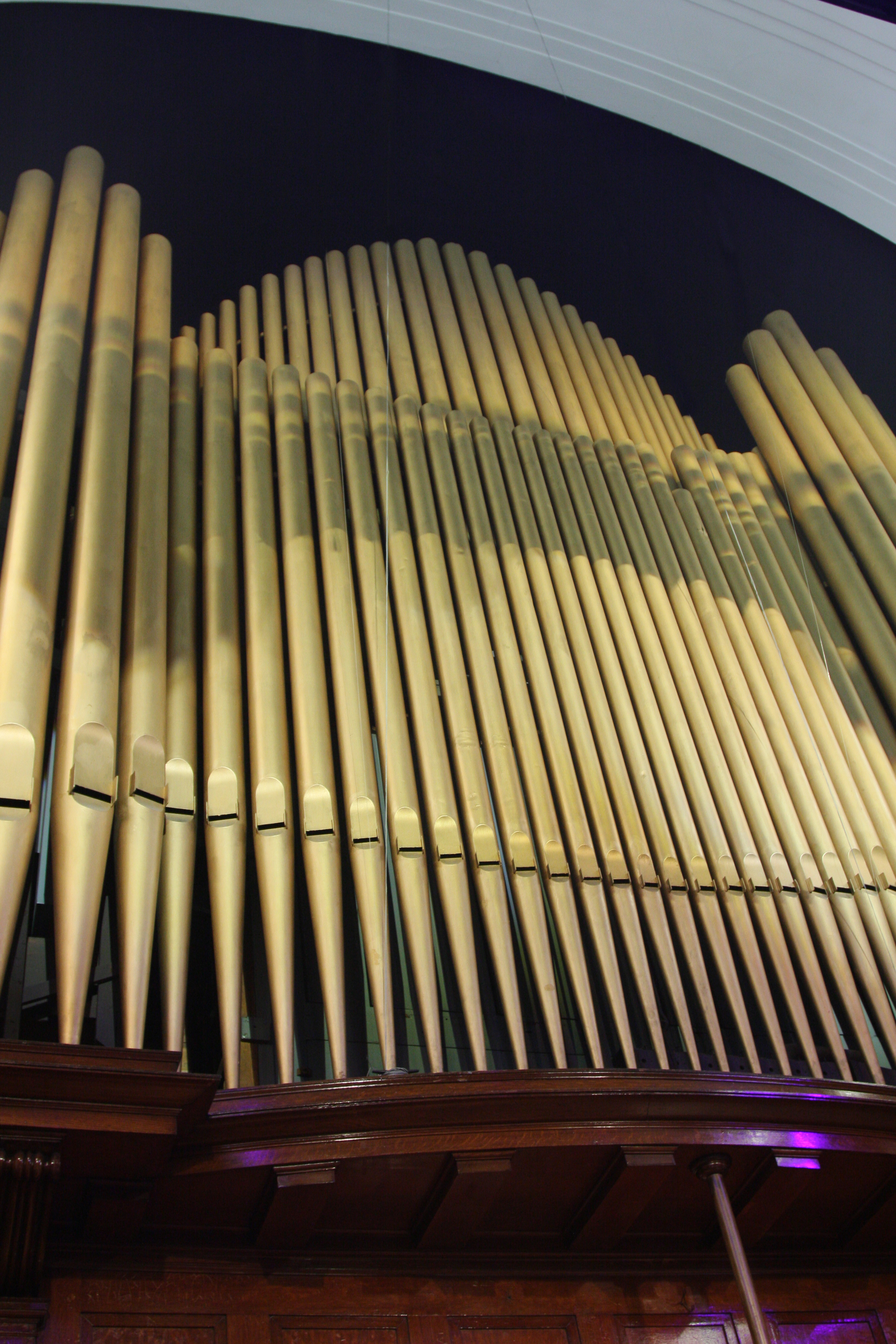 Highland Arts Theatre Casavant Frères Organ - view of one of the ranks of metal pipes that make up the visible face of the organ. The 2,045 pipe, three-manual pipe organ made by the famous Casavant Frères in Quebec is the largest such instrument on Cape Breton Island. The 18-ton organ underwent $15,000 in repairs to its bellows in 2008. It was purchased for the new church in 1910 for $5,595. The Highland Arts Theatre is a historic building, first constructed as a Presbyterian Church, now operating an arts and culture centre in Sydney, Cape Breton Regional Municipality, Nova Scotia, Canada. It was initially constructed as St. Andrew's Presbyterian Church. In 2014 St. Andrew's reopened as the Highland Arts Theatre, a live play and film theatre and concert venue located in Sydney's waterfront district.